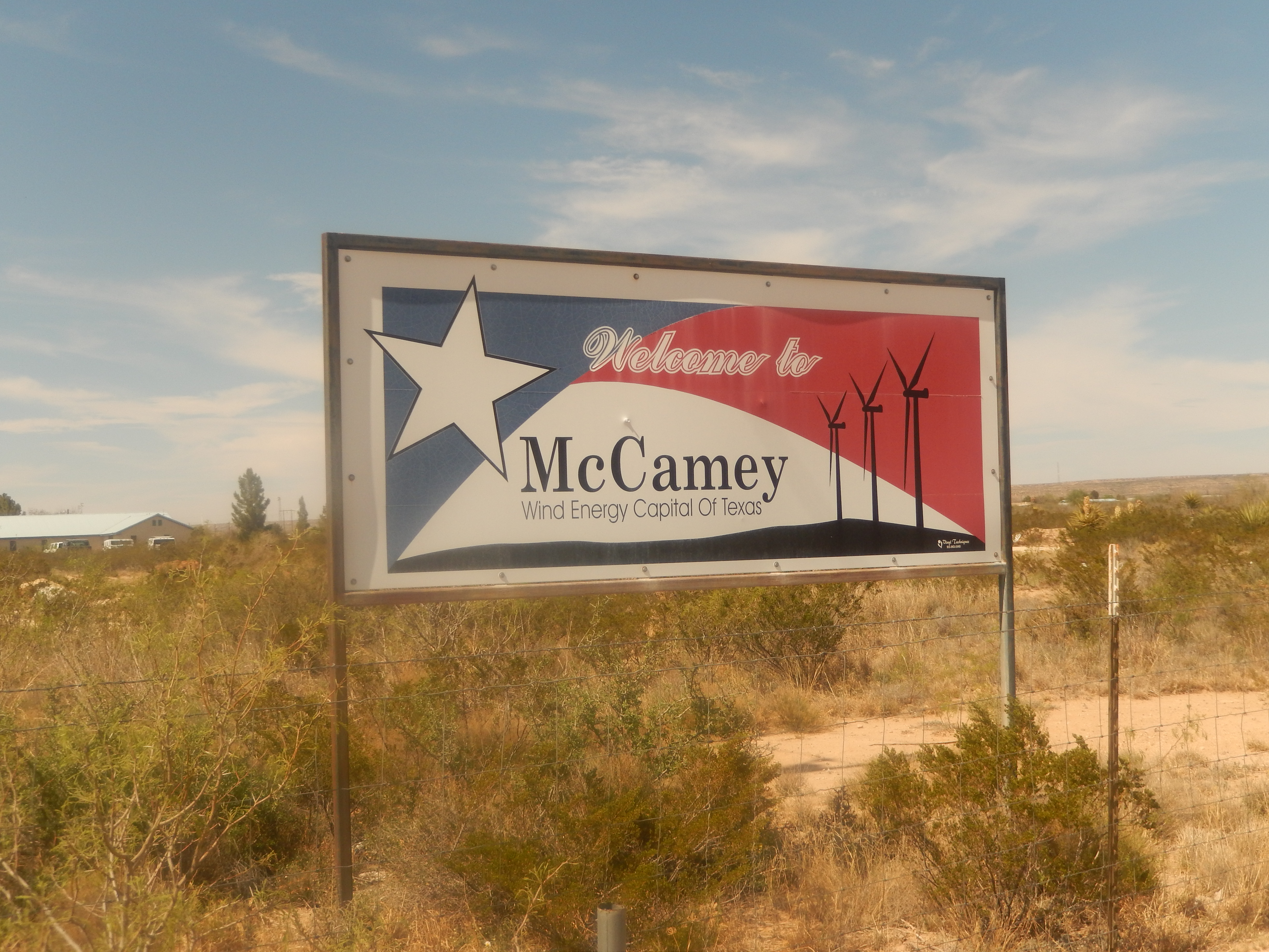 I took photo with Nikon camera of McCamey sign.